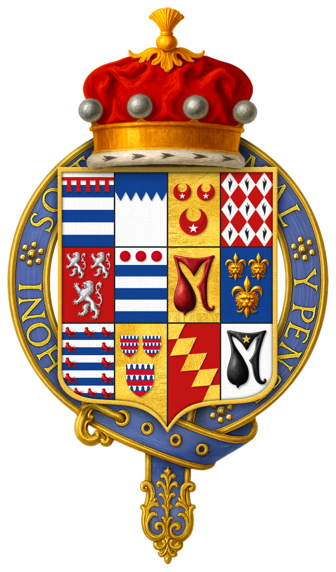 Coat of arms of Sir William Grey, 13th Baron Grey de Wilton, KG